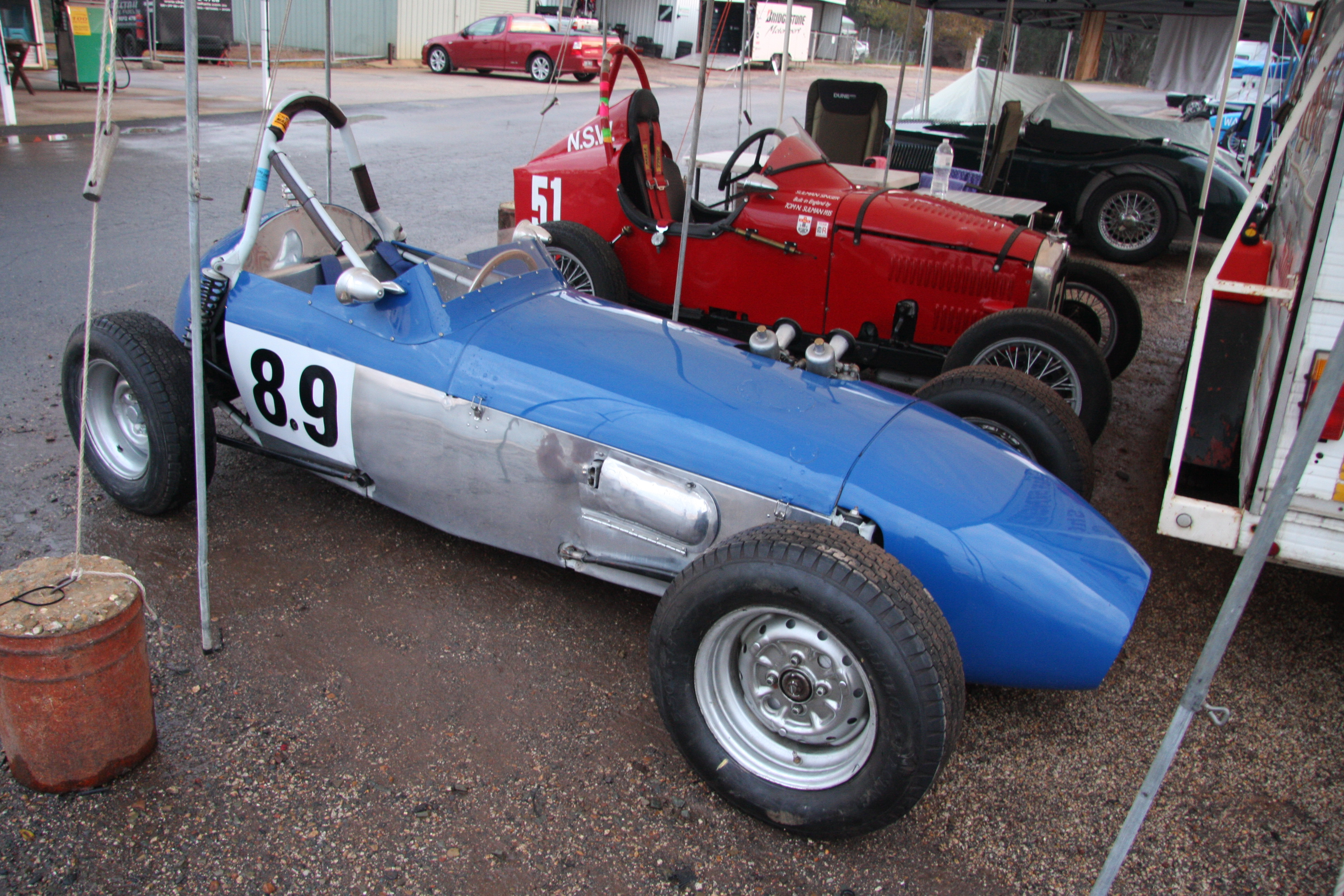 1960 Nota Formula Junior at Historic Winton.